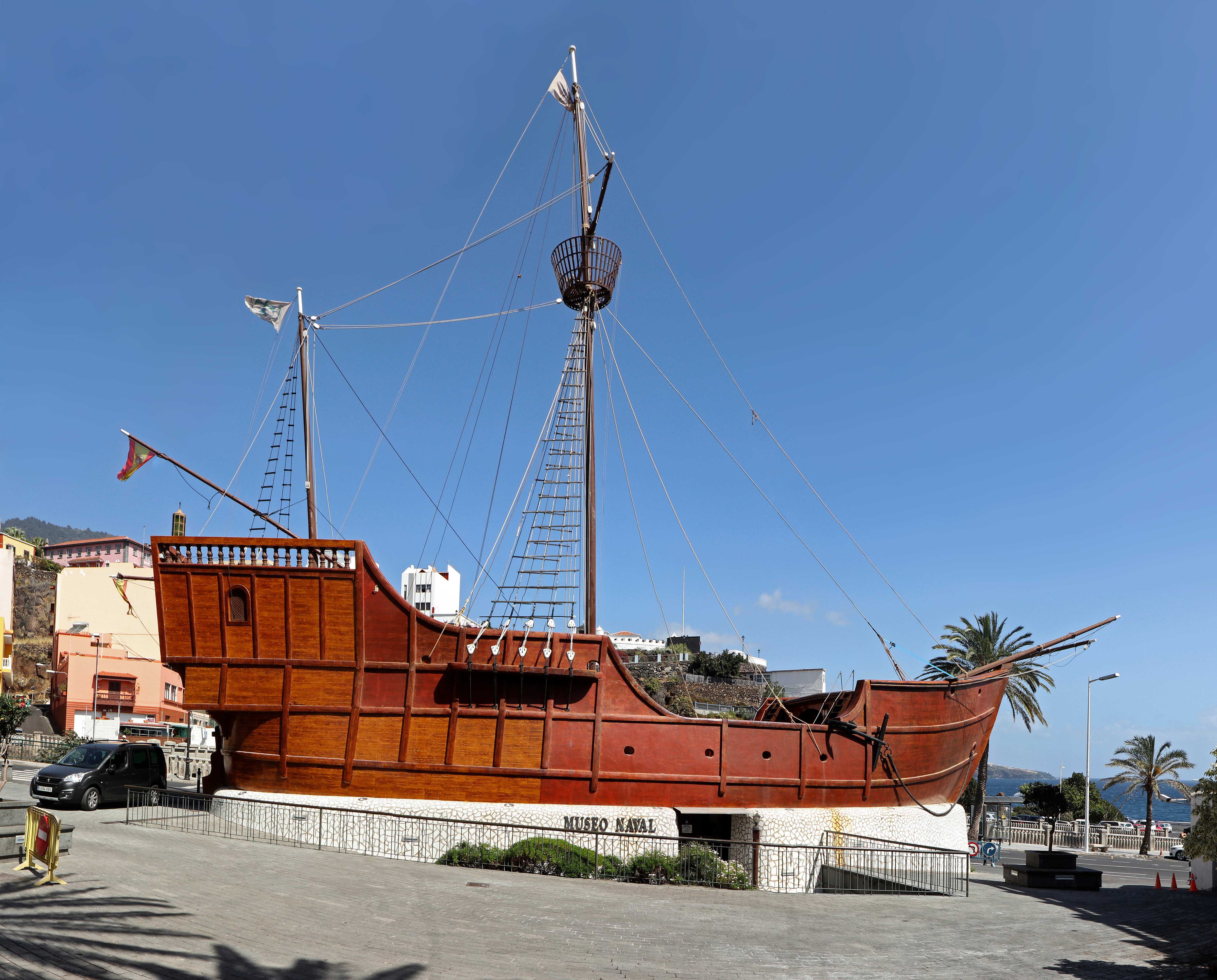 Museo Naval del Barco de la Virgen, Santa Cruz de La Palma, La Palma, Canary Islands, Spain.